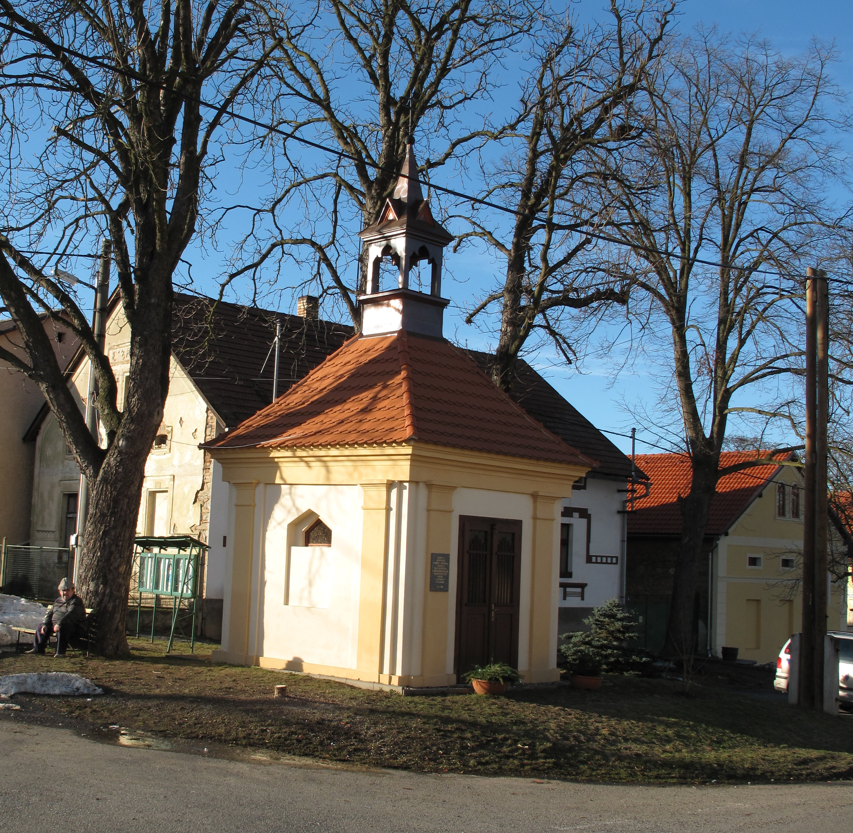 Chapel in Chotilsko village, Příbram District, Czech Republic. Personality rights warningAlthough this work is freely licensed or in the public domain, the person(s) shown may have rights that legally restrict certain re-uses unless those depicted consent to such uses. In these cases, a model release or other evidence of consent could protect you from infringement claims.